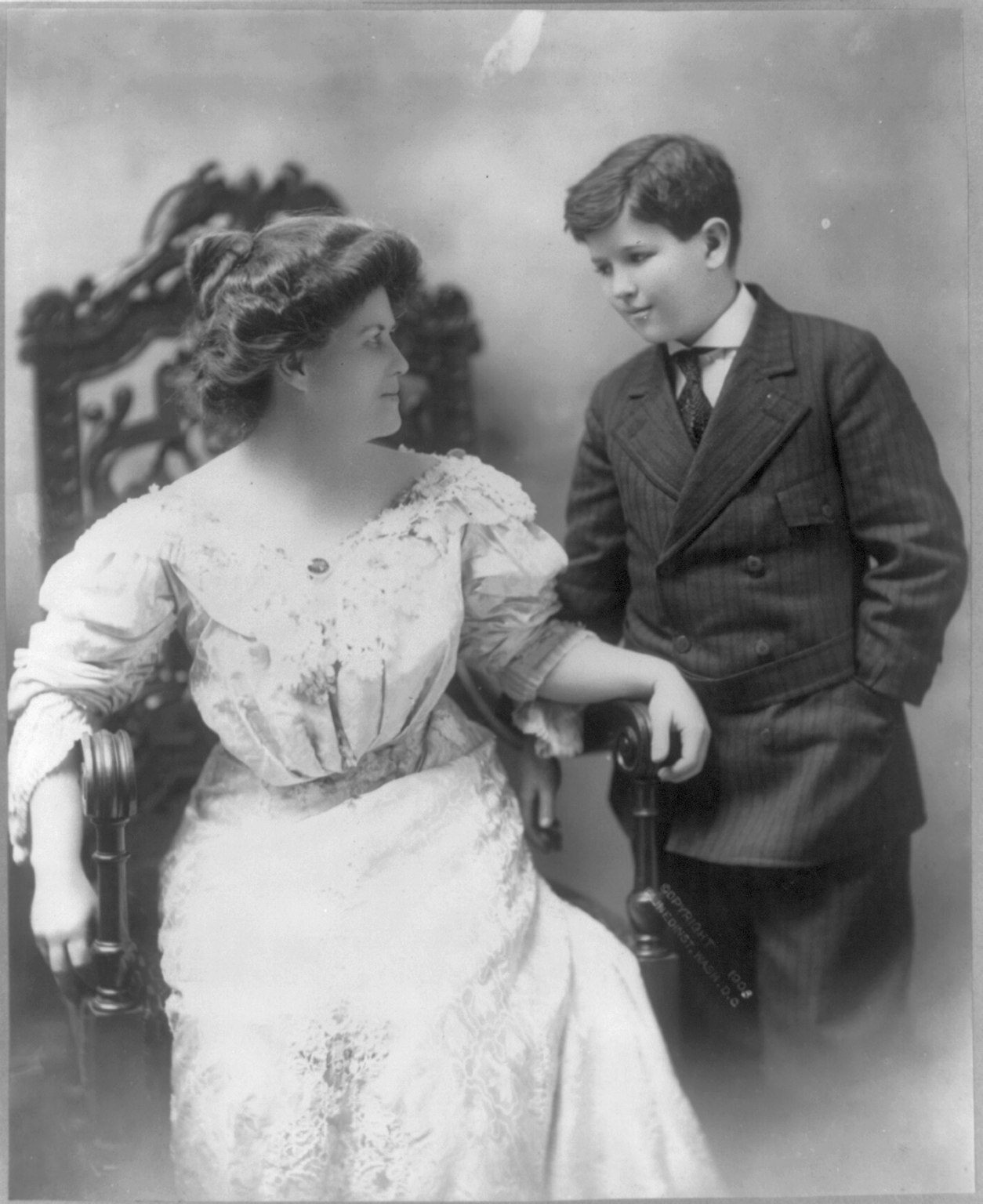 Title: Belle Case LaFollette, three-quarter length portrait, seated, with son, Robert M. LaFollette, Jr. Abstract/medium: 1 photographic print.